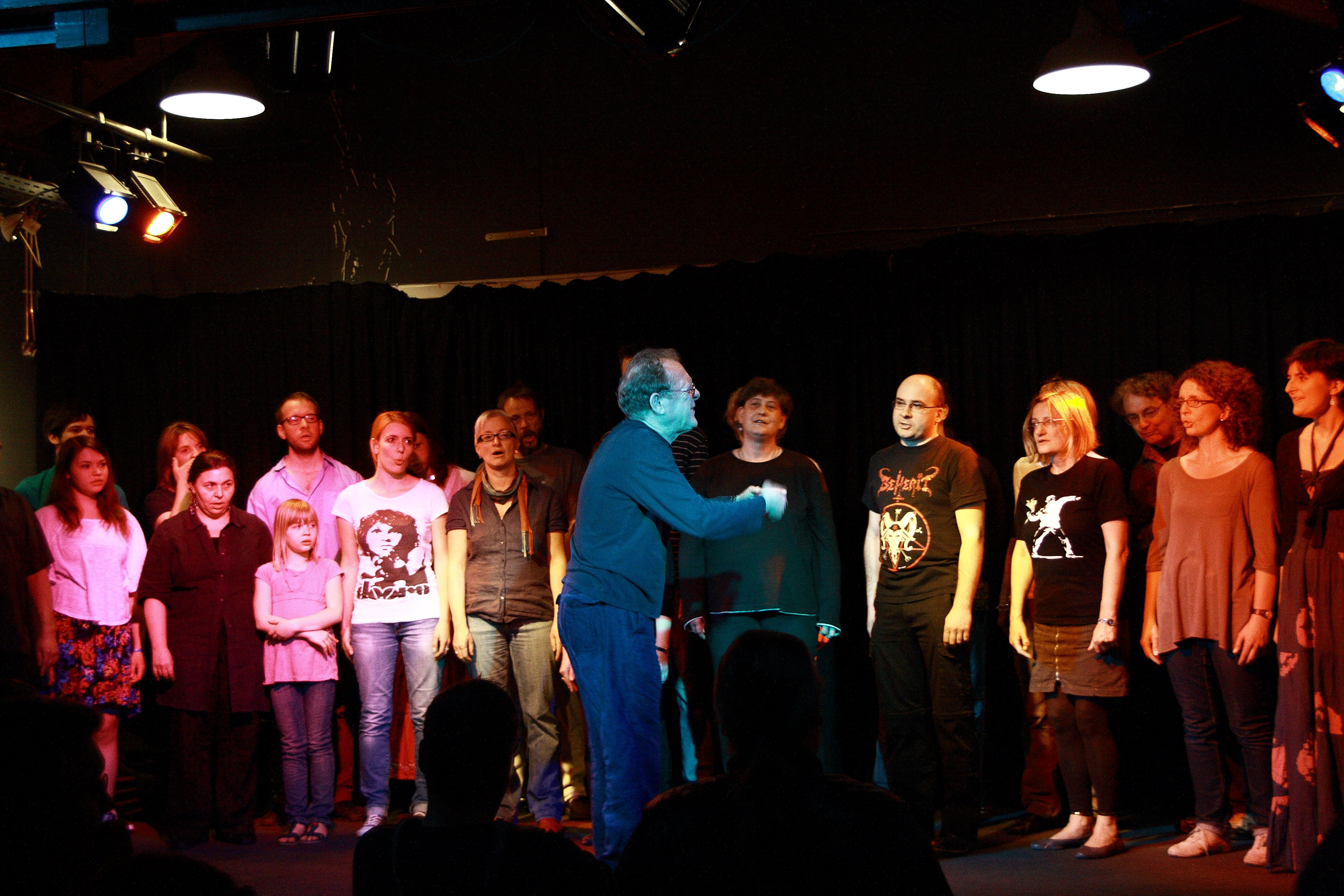 The Feral Choir-Workshop under direction of Phil Minton performing at Club W71, Weikersheim.